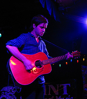 Val Emmich on stage at The Saint, Asbury Park, NJ on September 28, 2012.